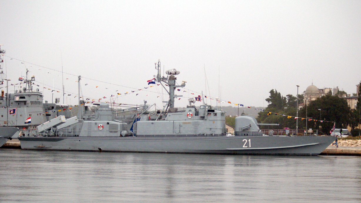 missile boat RTOP-21 Sibenik (Croatian War Navy)